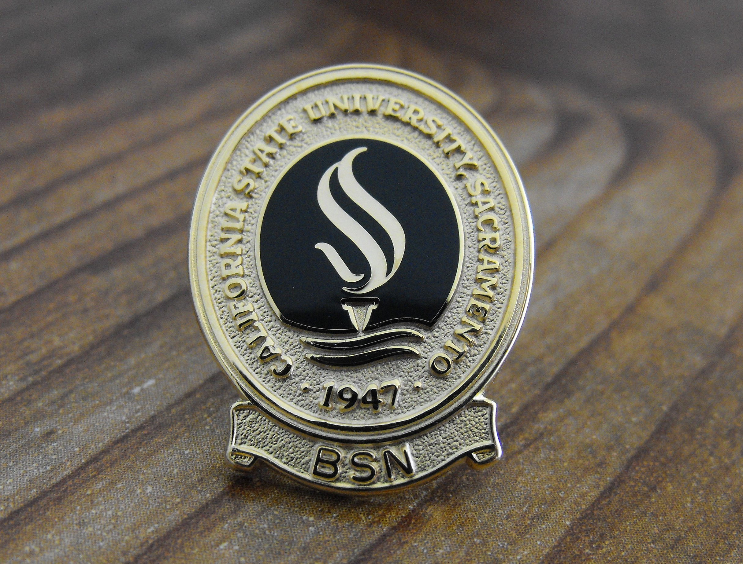 The nursing pin from the Division of Nursing at California State University, Sacramento. Awarded 2008.